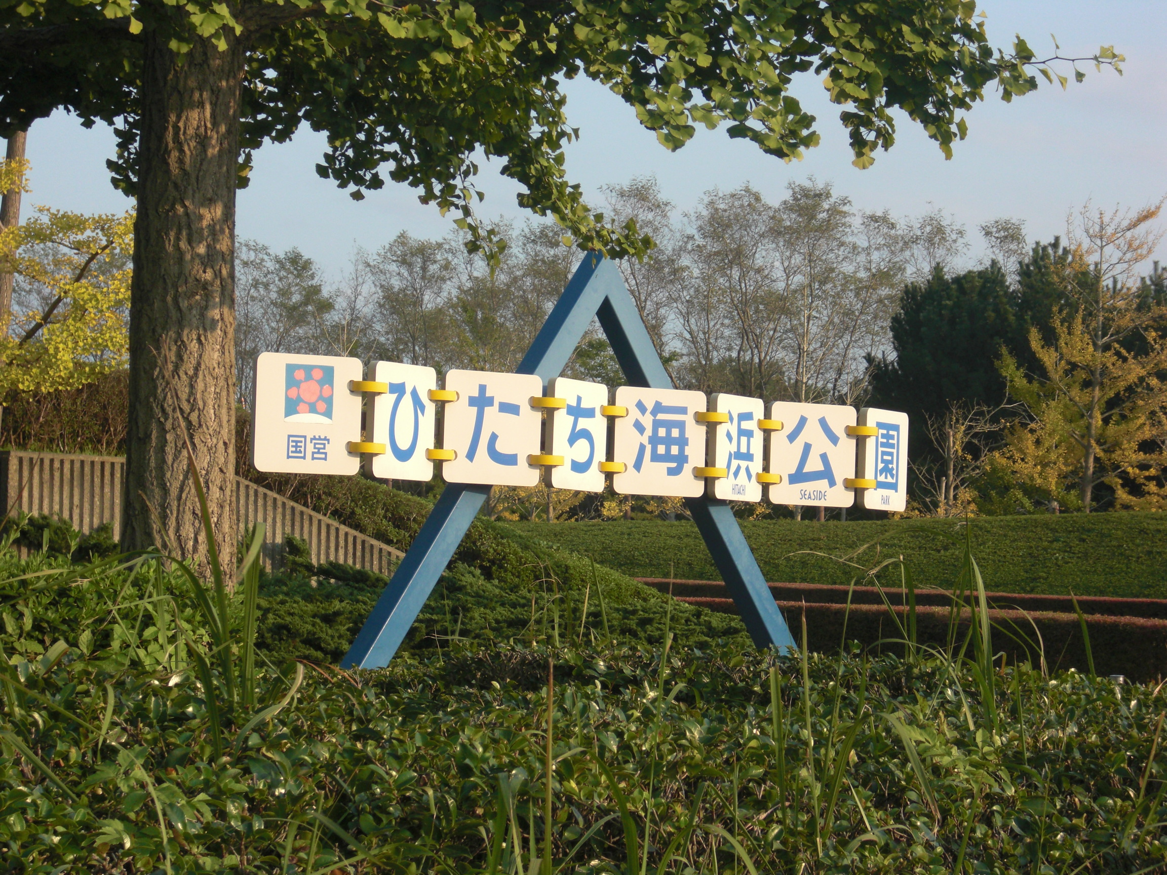 This is a park in Japan.